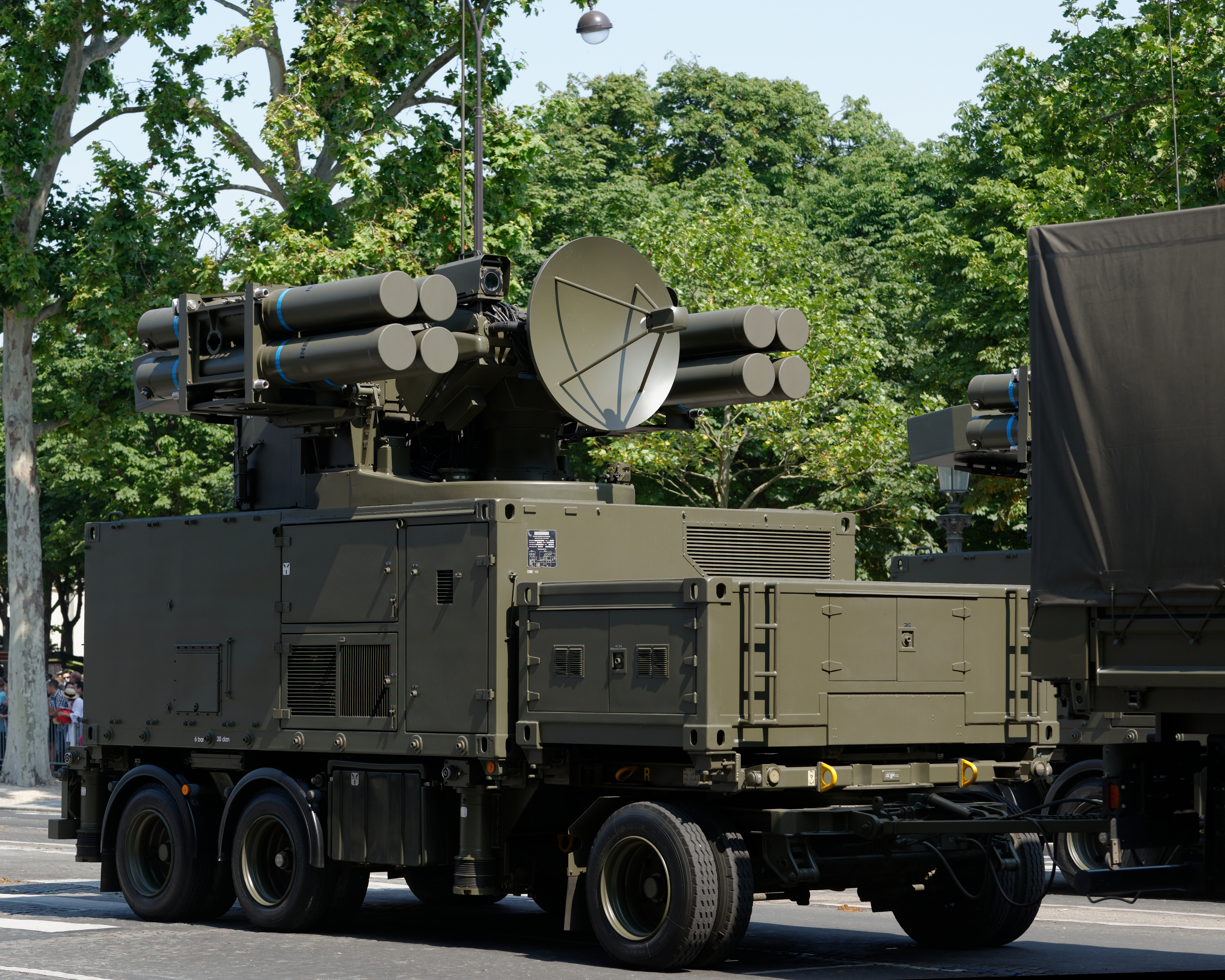 Crotale NG missile launcher of the Air Defence Squadron 12/950 Tursan at the Bastille Day 2013 military parade on the Champs-Élysées in Paris.